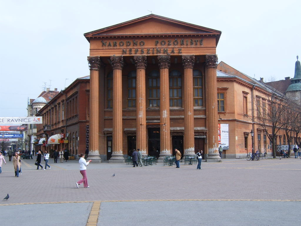 National Theatre, Subotica, Serbia